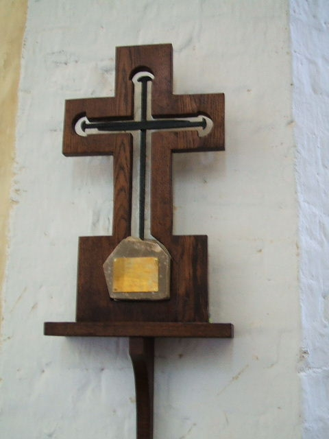 Cross of nails, Stralsund, Marienkirche